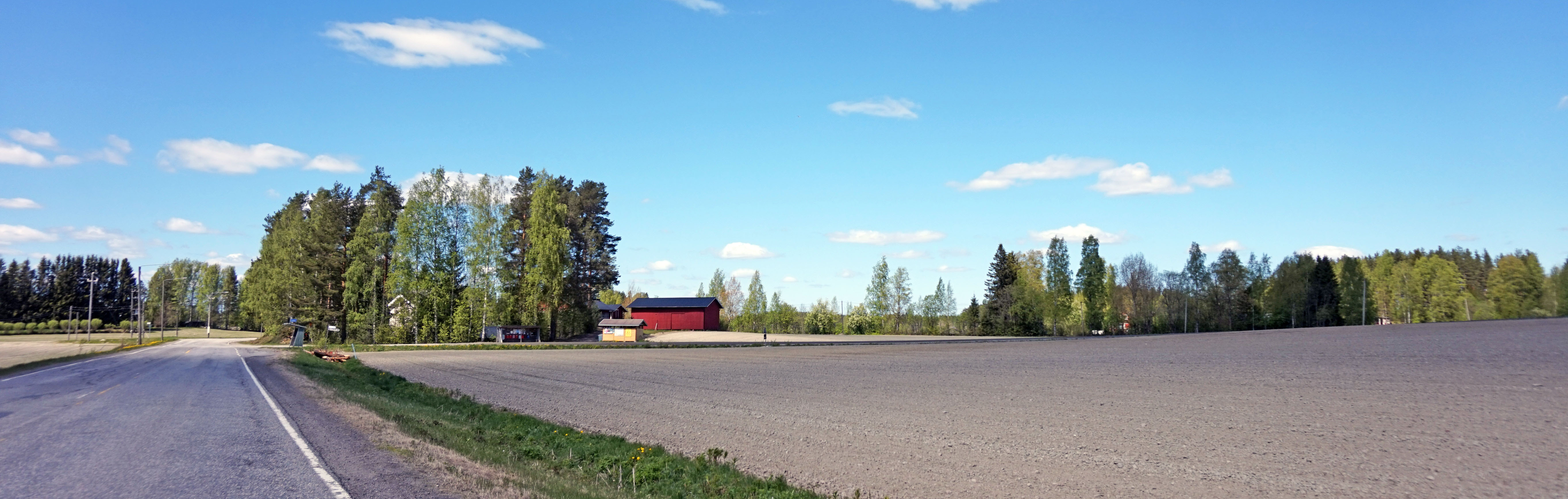 Savio in Laukaa, Finland.This photograph was taken with a Sony ILCE-5000